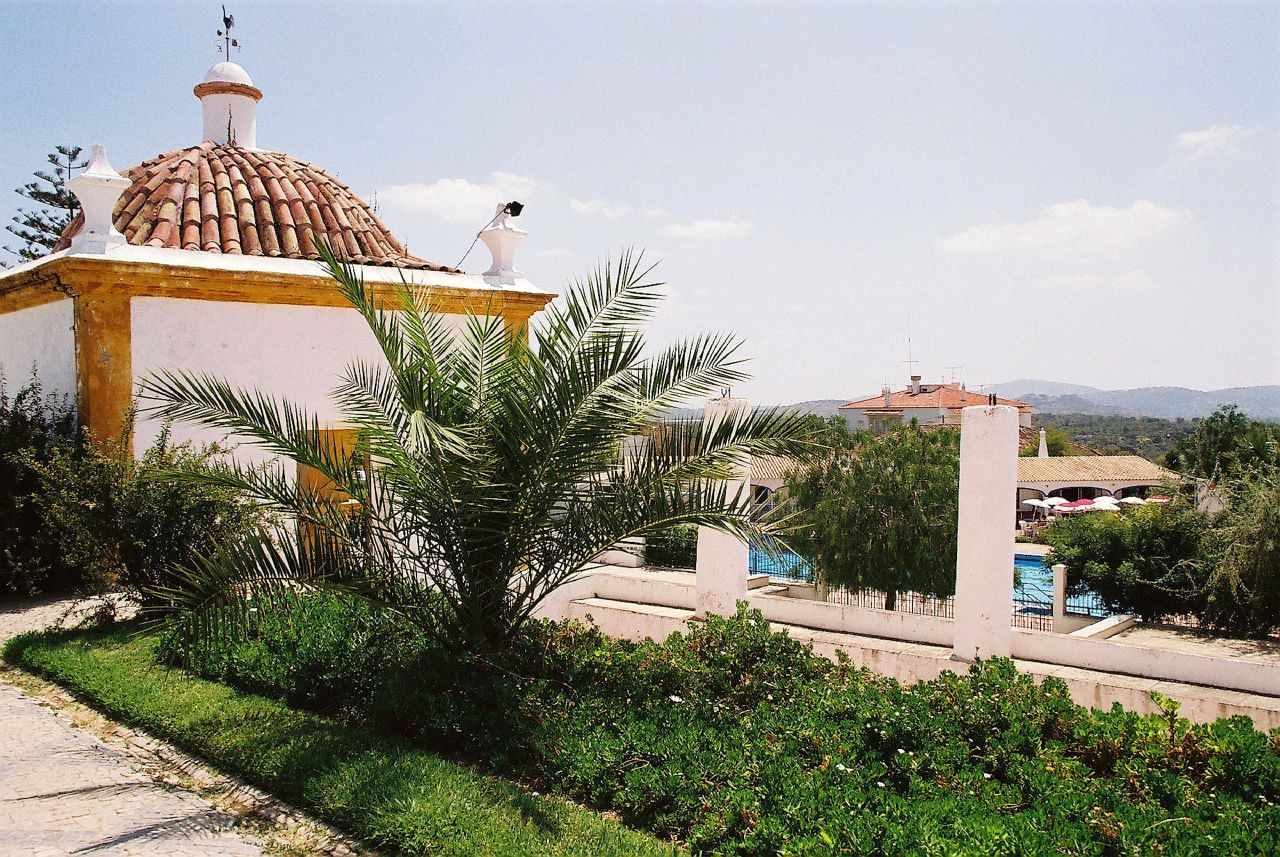 Municipal swimming pool inside the Verbena gardens located in São Brás de Alportel, Algarve, Portugal.